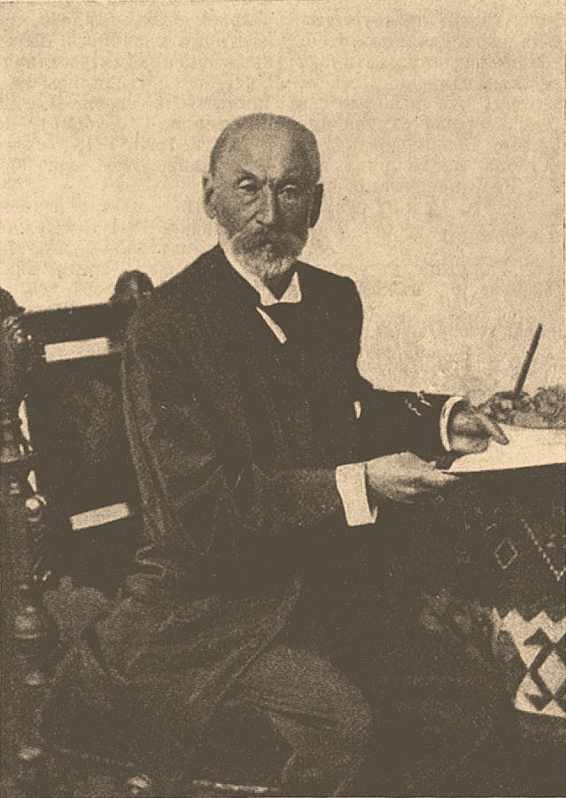 Illustration from Brockhaus and Efron Jewish Encyclopedia (1906—1913). Solomon Rubin.